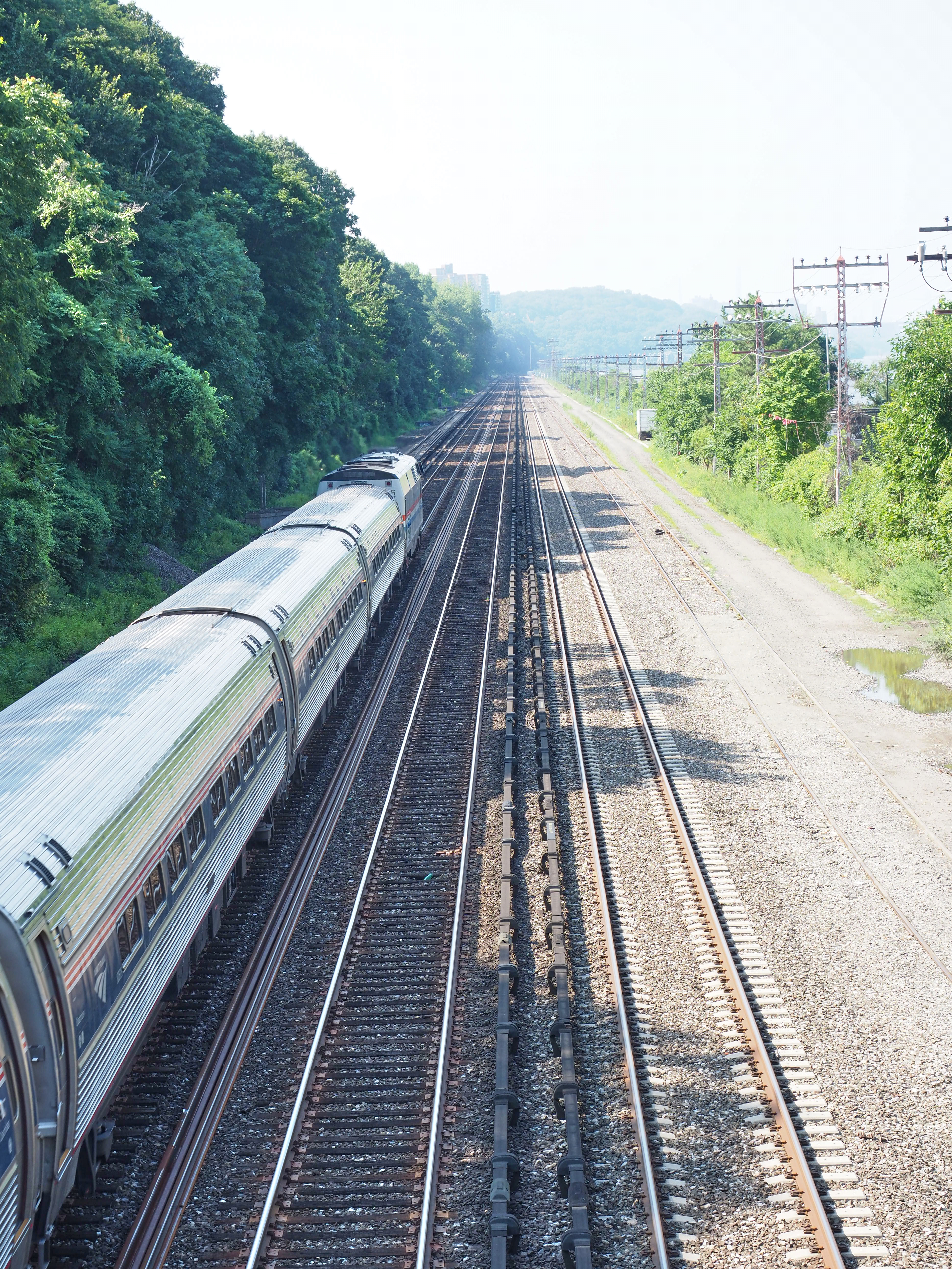 A southbound Empire Service train (#260) ooking south from 254th Street bridge, Riverdale, Bronx, NY